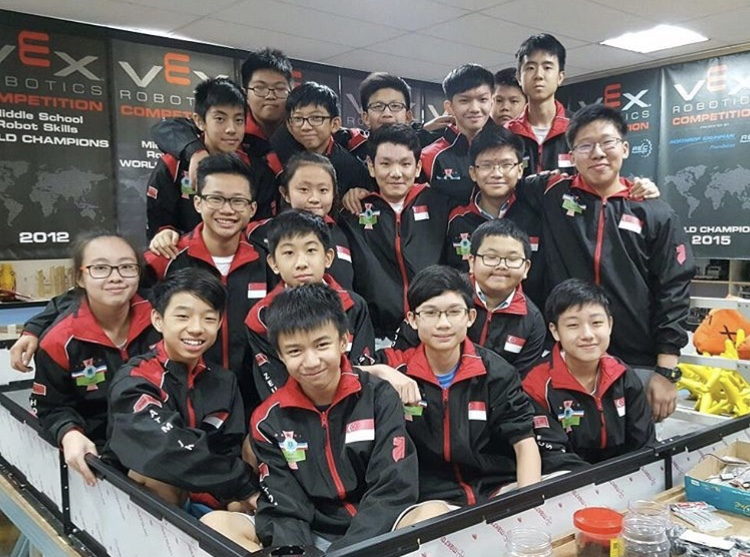 This is a picture of Hai Sing Catholic School's Team Singapore Robotics Team after representing the country at VEX 2016 and winning the champion award.